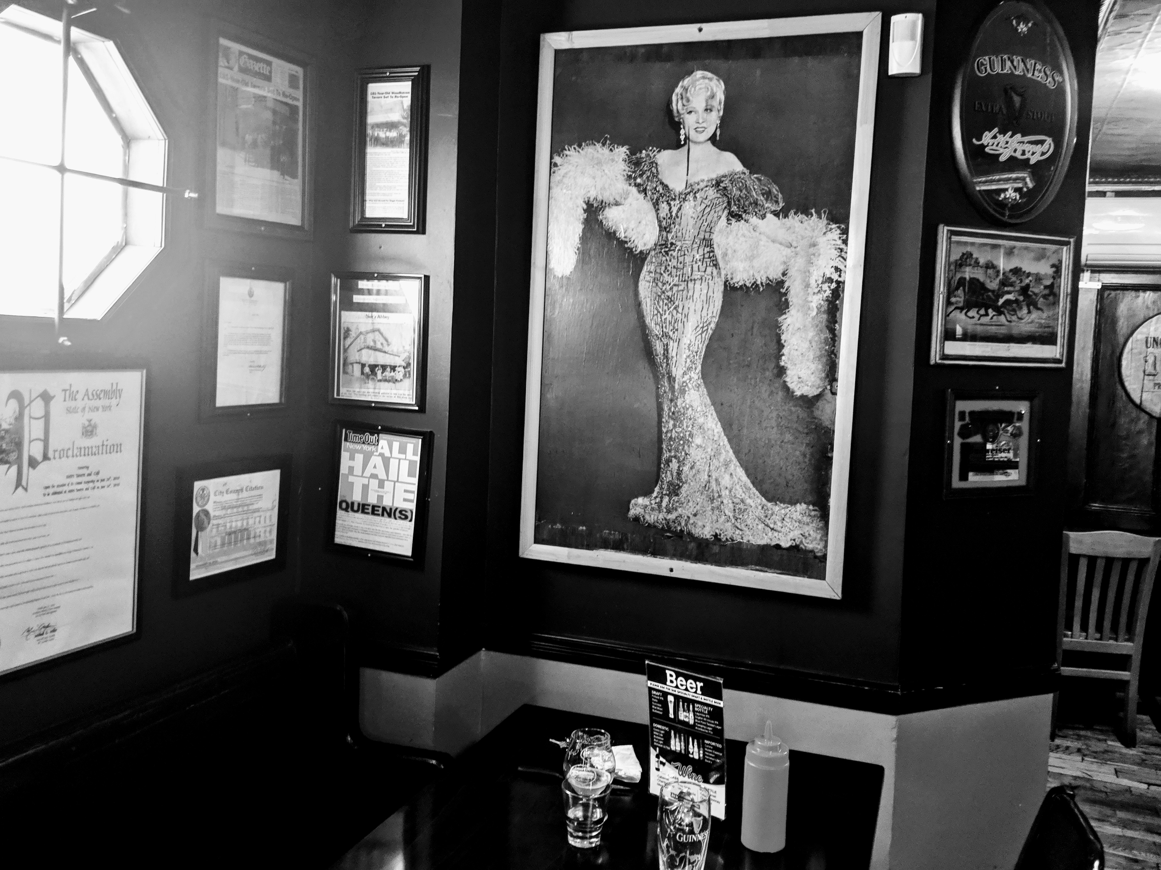 Mae West performed early in her career at Neir's